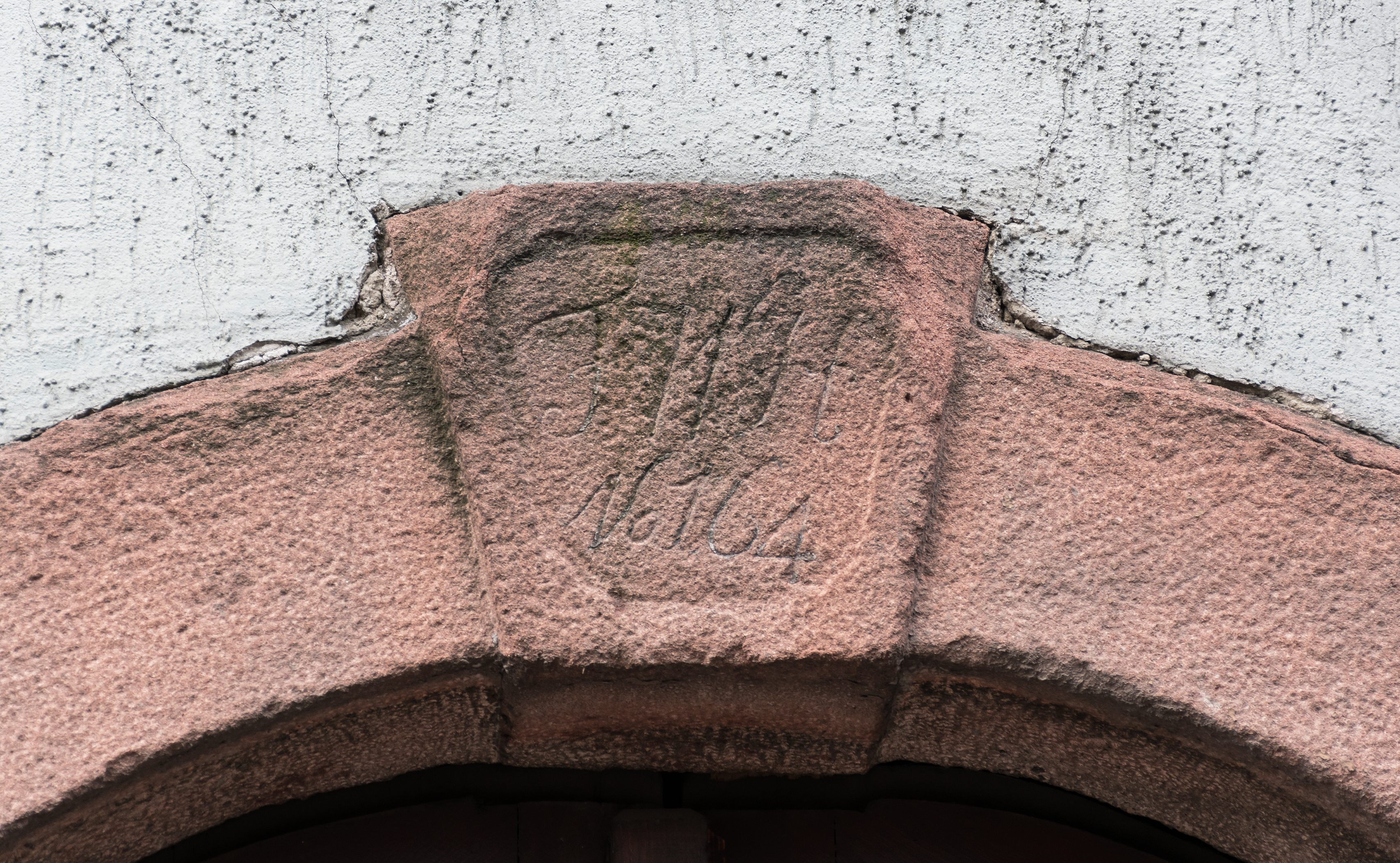 25 Piastów Street in Nowa Ruda